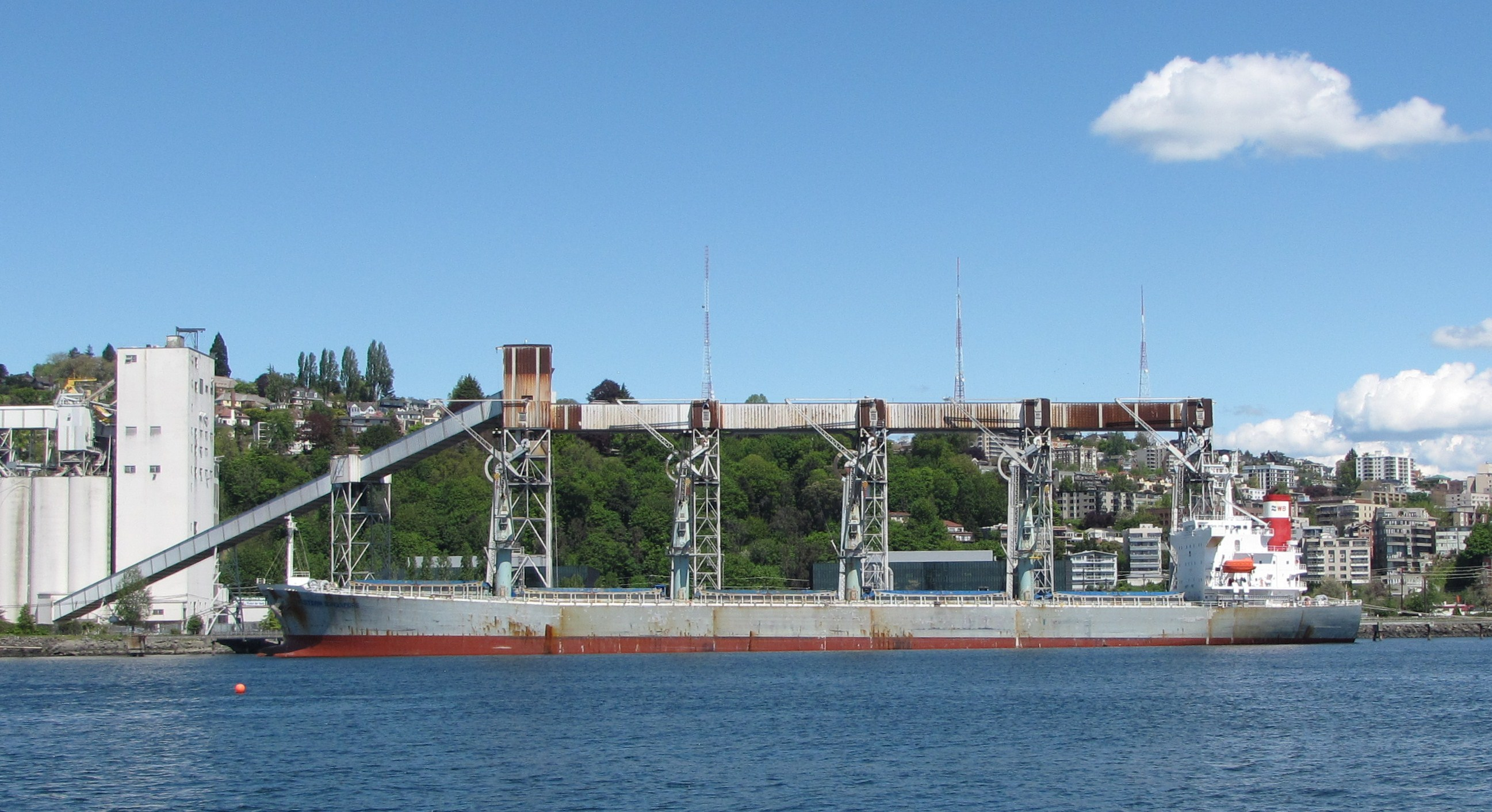 grain bulk carrier & Pier 86 grain terminal, Seattle, Washington / 2010